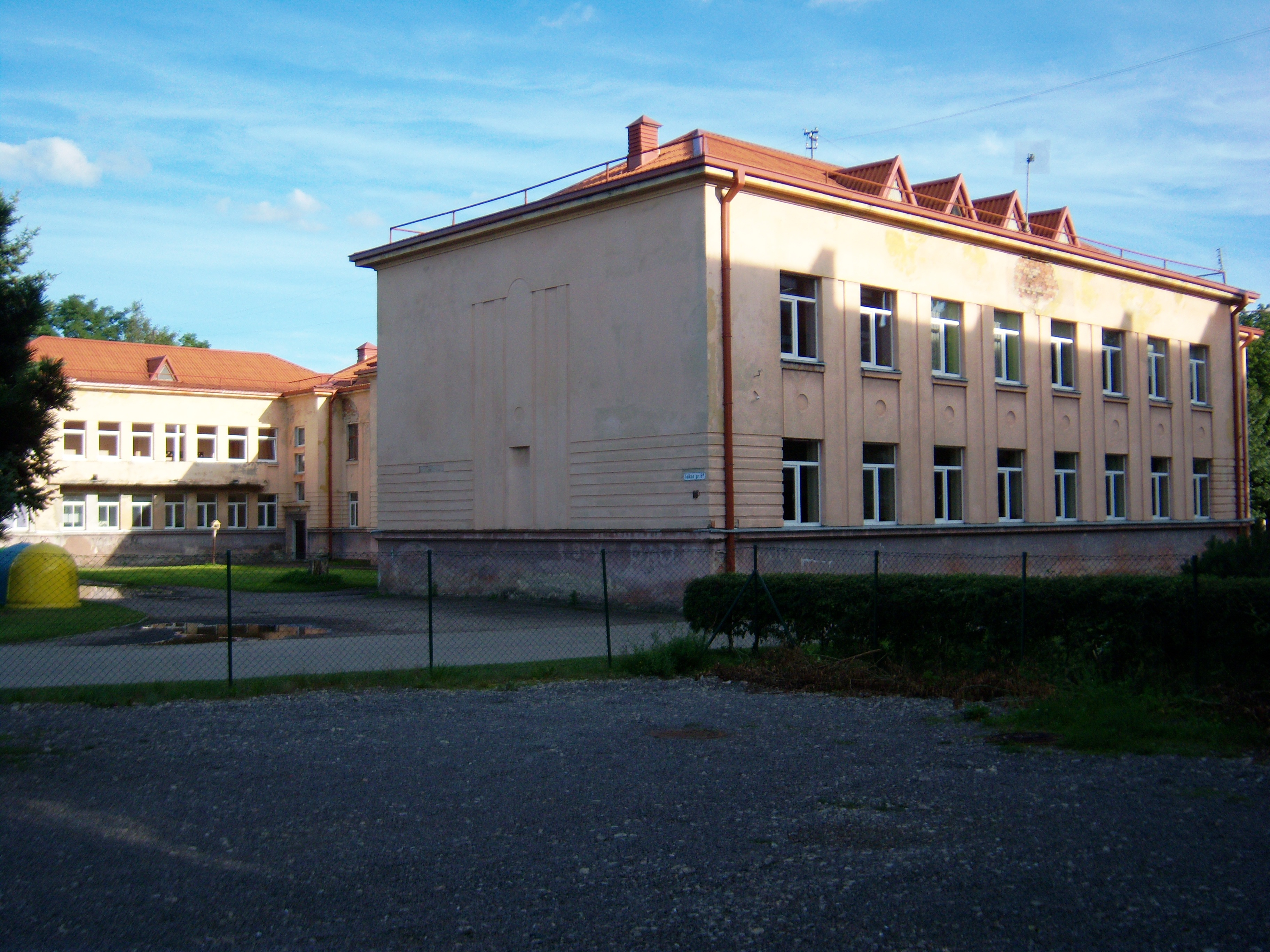 Education center for the blind and visually impaired , Kaunas, Lithuania